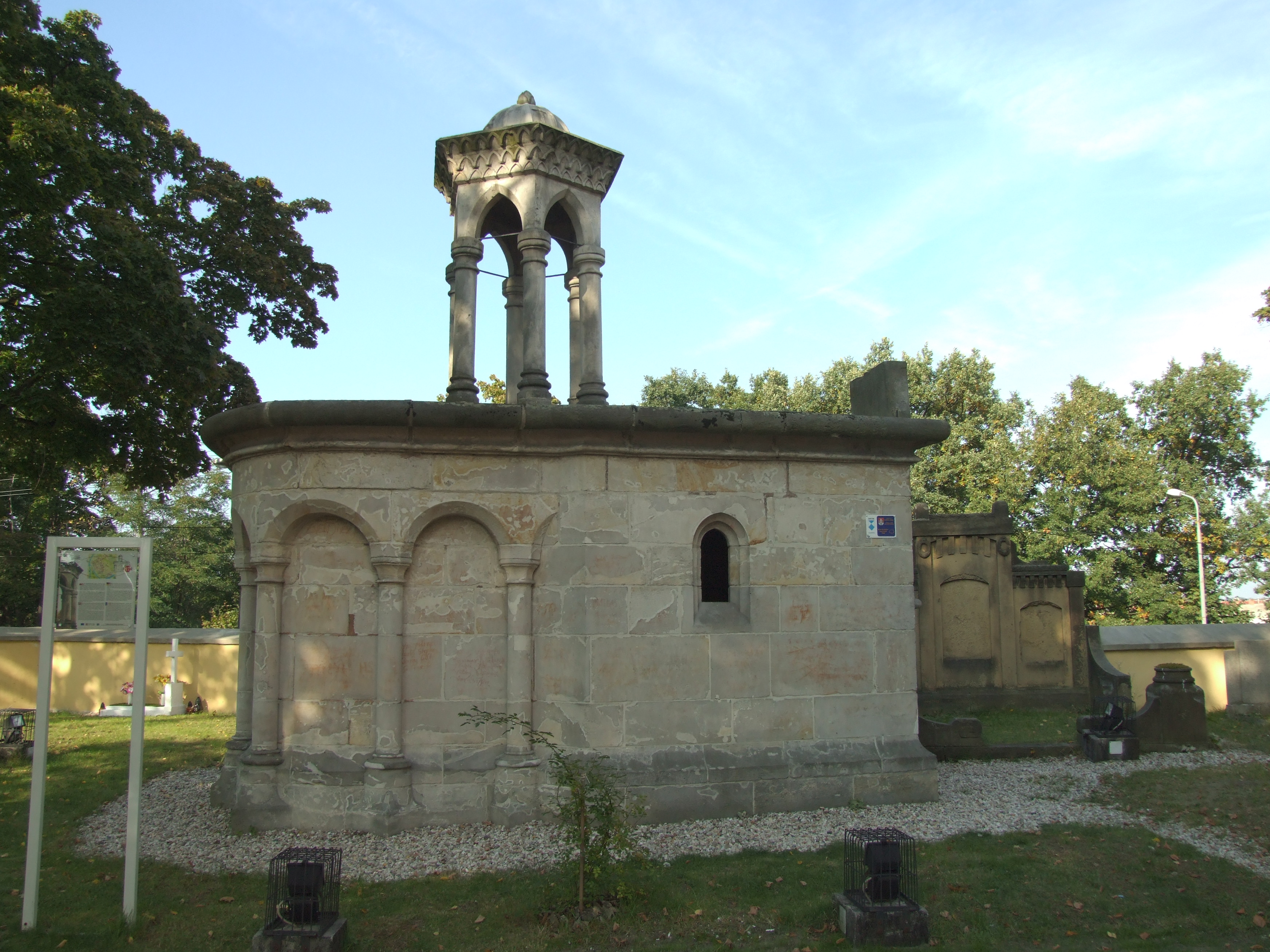 16-th century Holy Sepulchre Chapel in Żagań (Sagan) The chapel is based on the Jerusalem original before its redecoration in 1555. The copy, however, is not a direct one - it comes from the chapel in Görlitz, which was said to be an exact copy